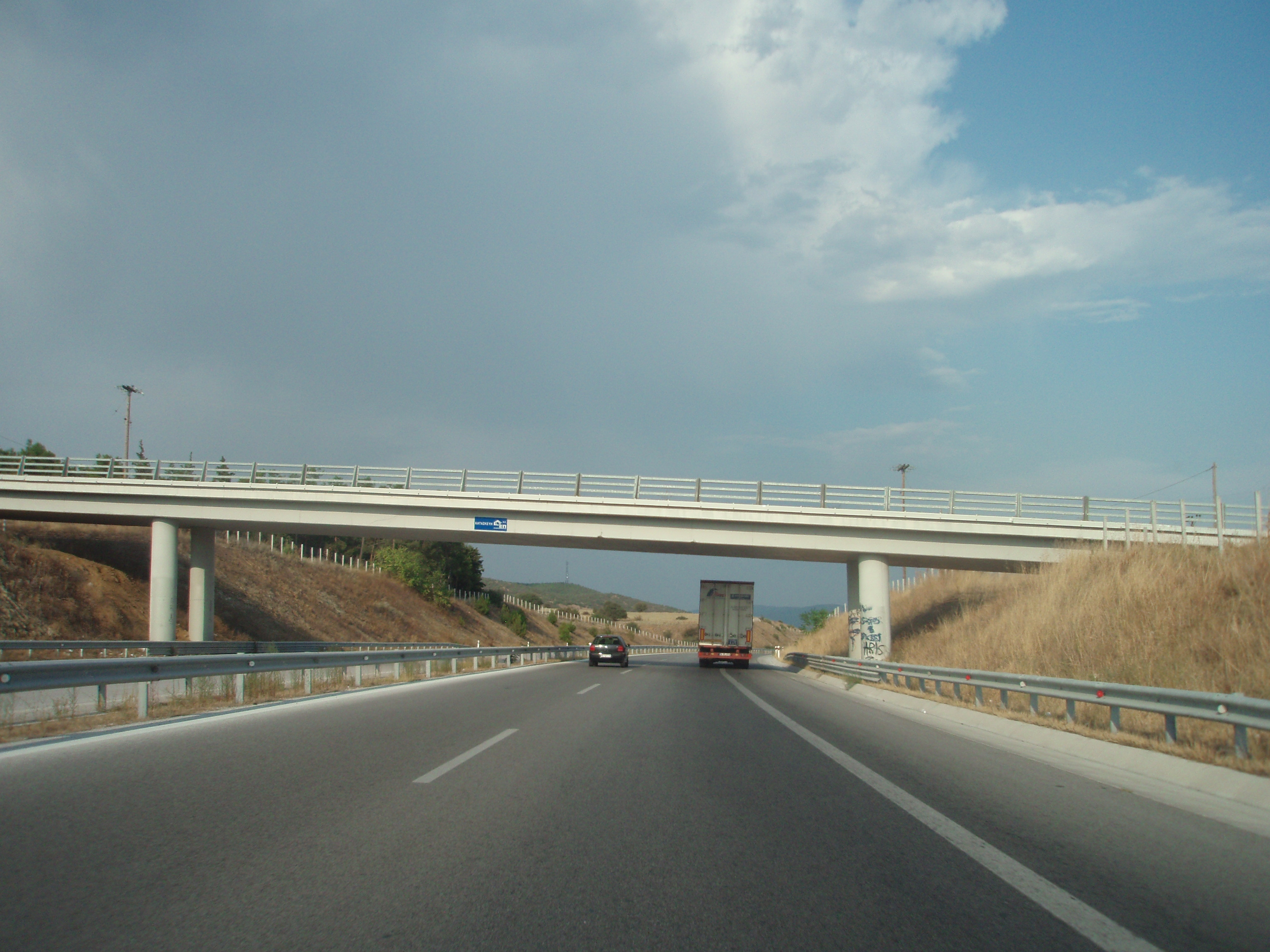 A2 motorway (Egnatia Odos) in Greece, section Profitis-Rendina (Rentina).